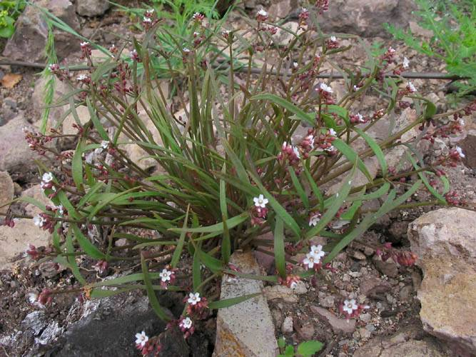 Claytonia exigua — Serpentine springbeauty, Pale claytonia. On the Backbone Trail, at Circle X Ranch Park — in the Santa Monica Mountains National Recreation Area, California..